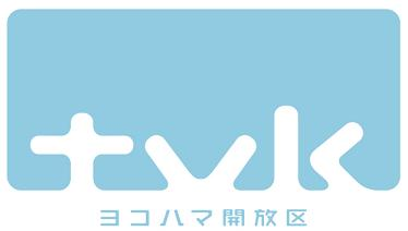 tvk Logo